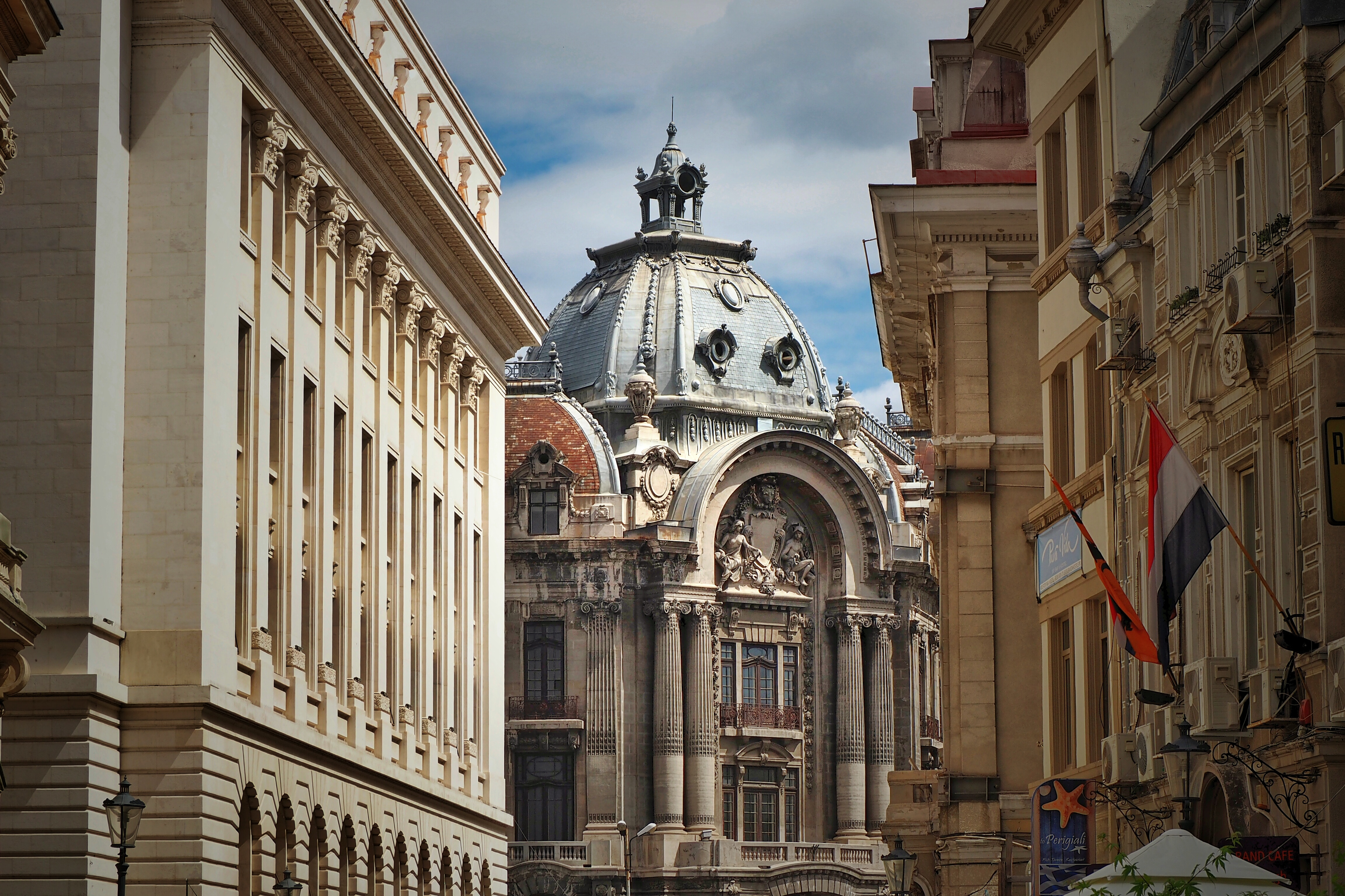 Bucharest, Romania Find out more about Bucharest: DiscoverBucharest